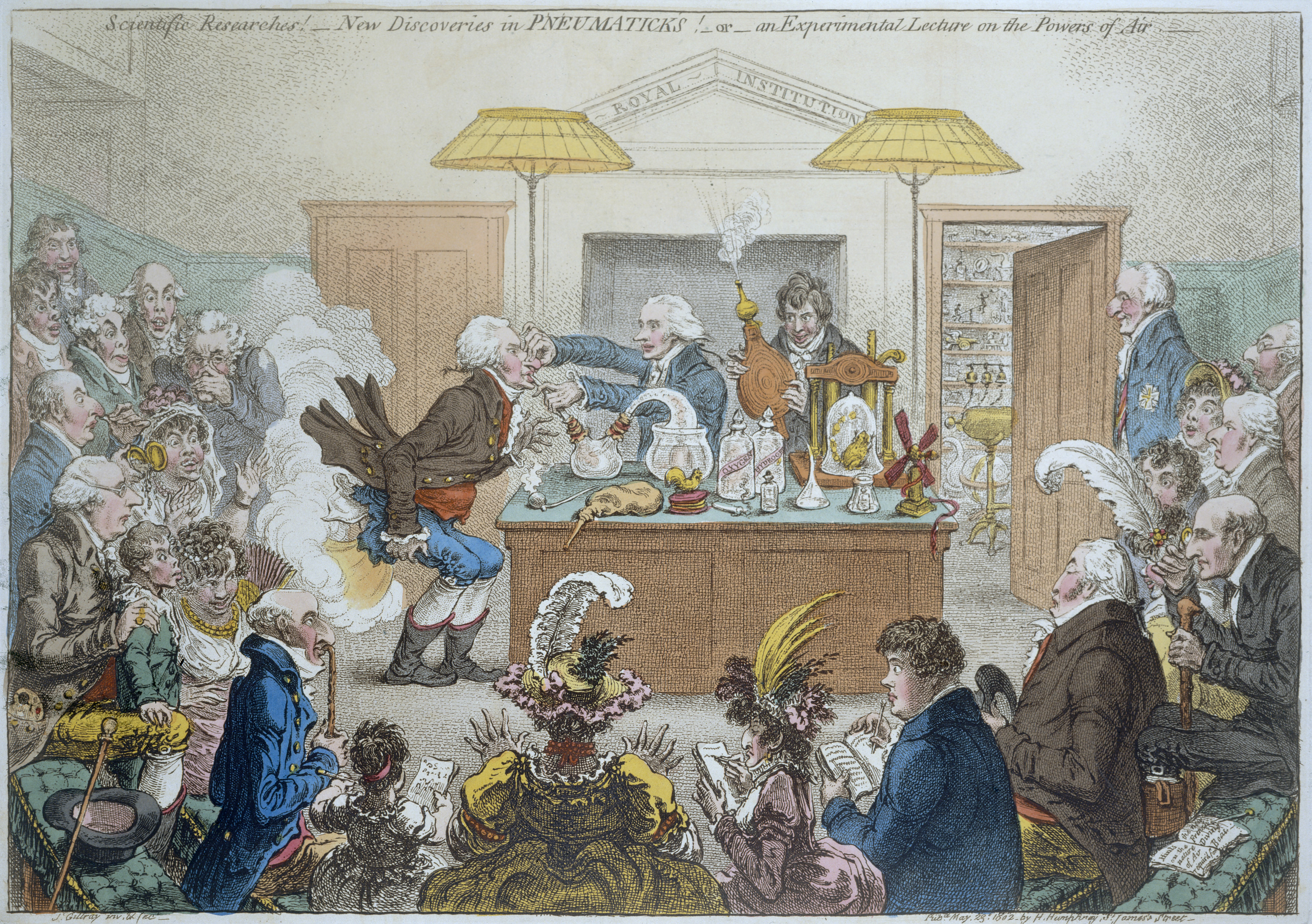 A lecture on pneumatics at the Royal Institution, London. Coloured etching by J. Gillray, 1802. Iconographic Collections Keywords: Thomas Young; Sir Benjamin Thompson; Humphry Davy; John Coxe Hippisley; Royal Institution of Great Britain; James Gillray